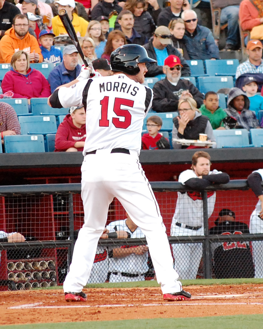 Hunter Morris, a first baseman for the minor league Nashville Sounds, awaits the pitch in a game at Herschel Greer Stadium on April 20, 2013